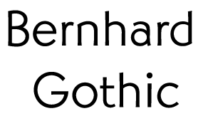 Name of the Bernhard Gothic typeface.